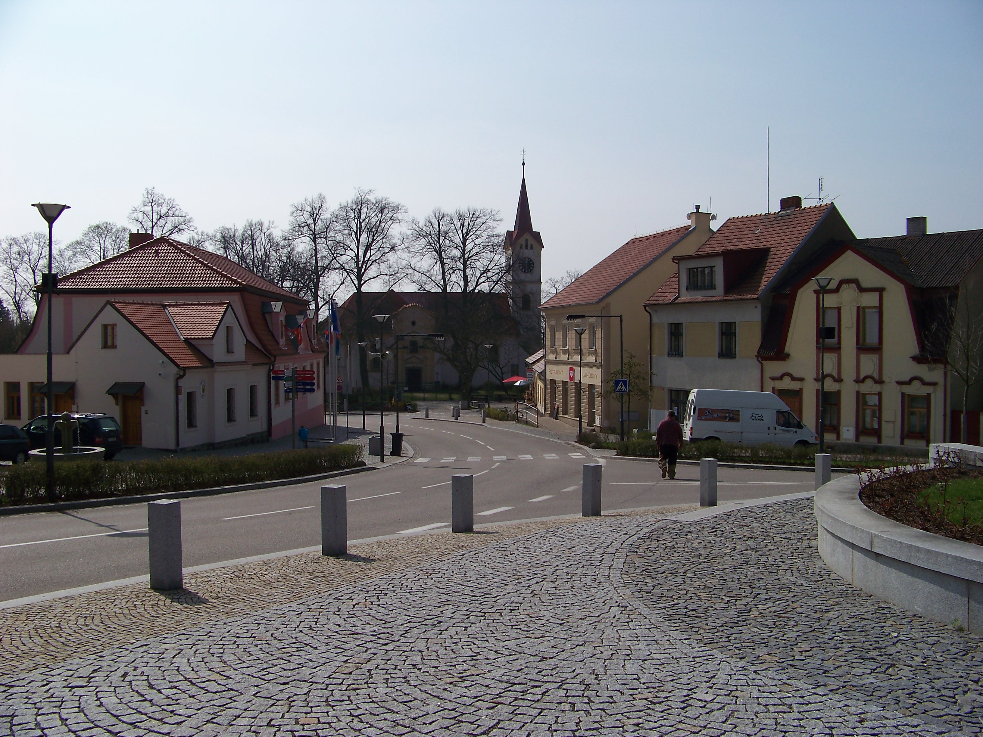 Pyšely, Benešov District, Central Bohemian Region, Czech Republic. Náměstí T. G. Masaryka, a view to the church. - Google Maps - Google Earth